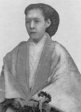 Yoshiko Nakayama (mother of Emperor Meiji)